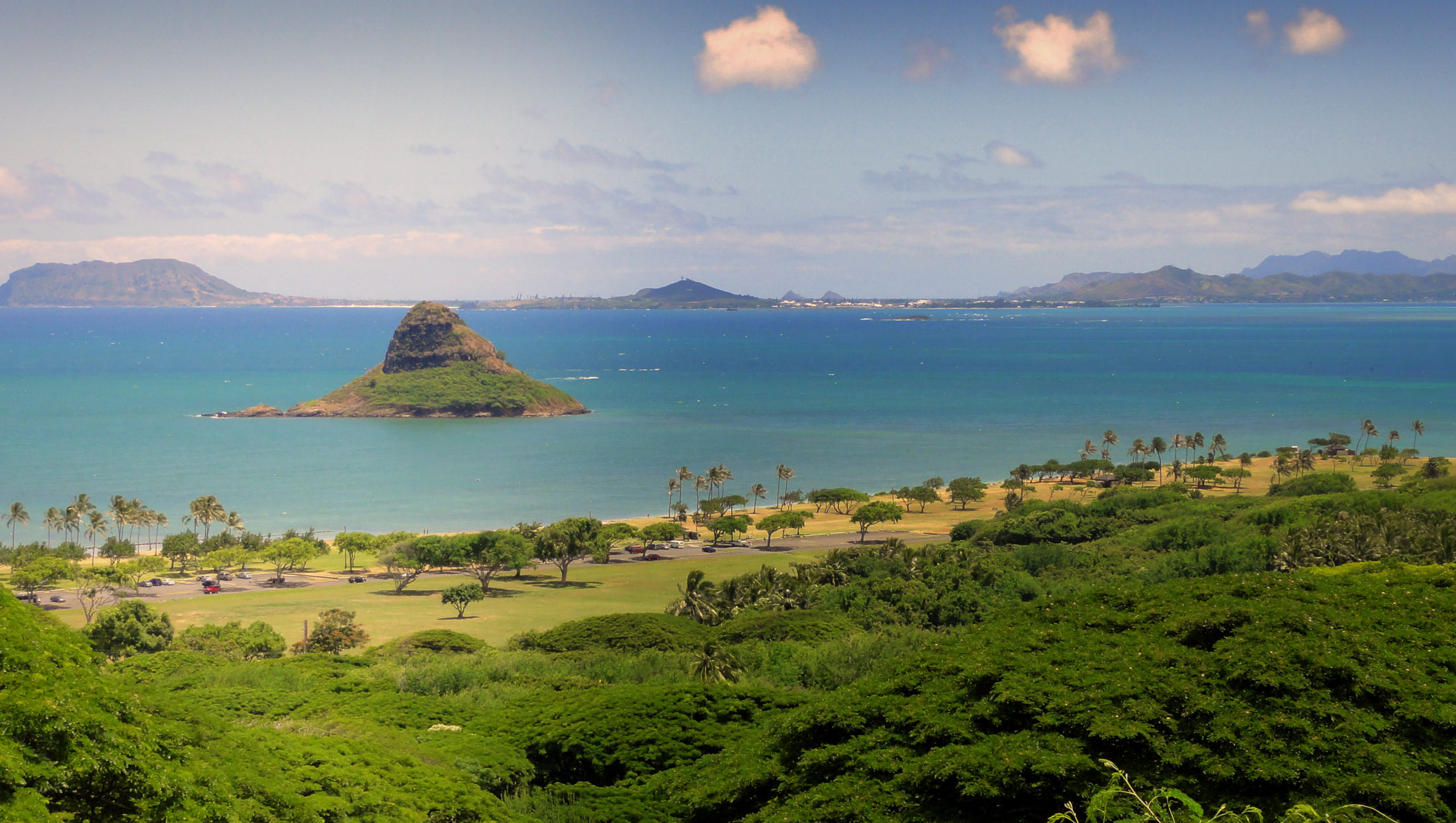 Chinaman's Hat - Oahu, Hawaii